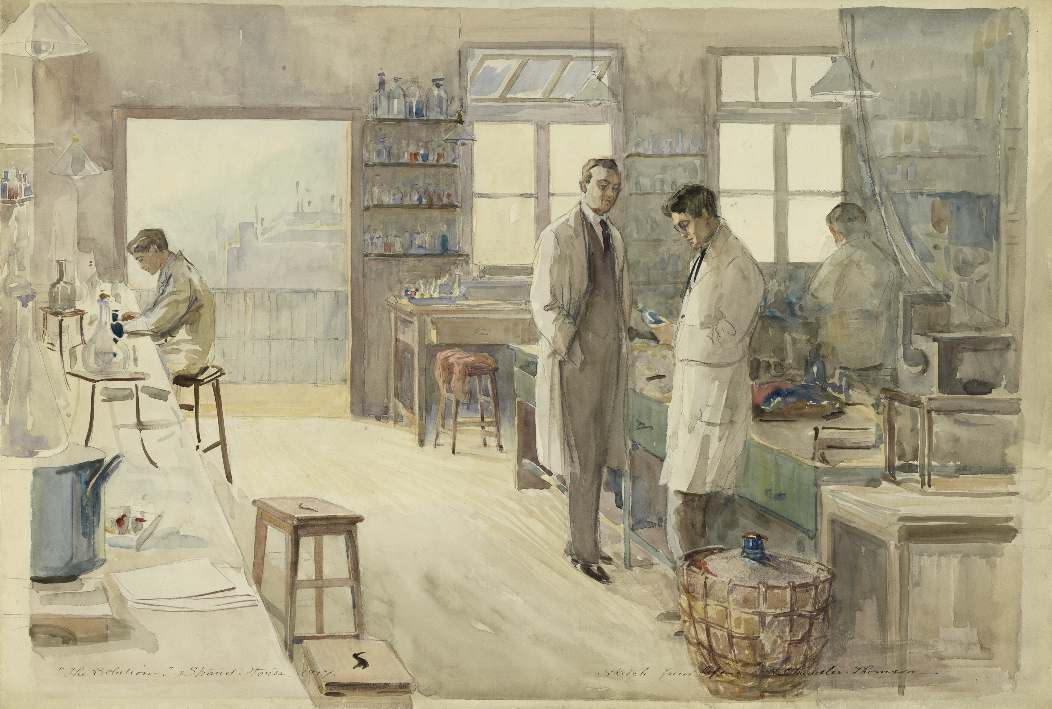 The Laboratory at Strand House, Portugal Street, London, 1917 image: a view of the interior of a laboratory in London. Two scientists in white lab coats stand in the centre of the room looking at a bottle that the foremost man is holding. To the left another scientist in lab coat sits at a desk bench, with various bottles on the surface, which runs along the whole left edge of the composition. Another scientist is working in the right background, facing away from the viewer towards a window.